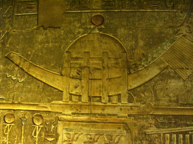 Relief of the divine bark Hennu - Temple of Hathor at Deir el-Medina